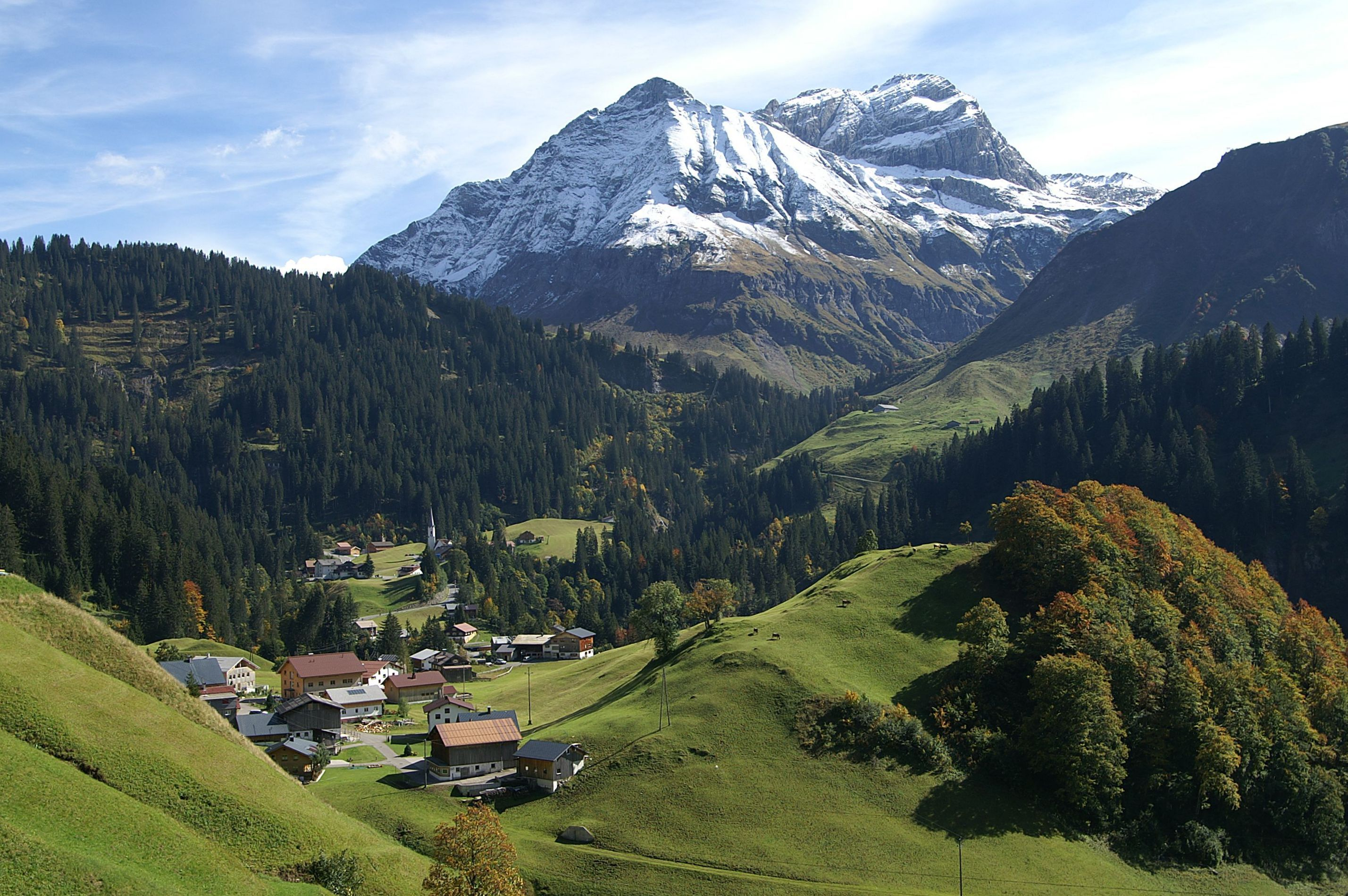 View of Schröcken in Bregenzerwald. In the background: left the Juppenspitze 2412m, right the Mohnenfluh 2542m .